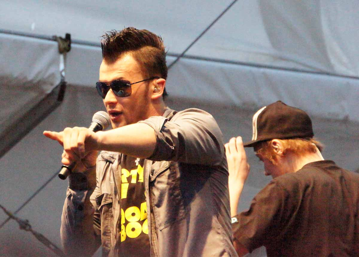 Trackshittaz is an Austrian hip-hop duo boyband, made up of Lukas Plöchl (left)and Manuel Hoffelner. As of 2012-05, they are going to represent Austria in Eurovision Song Contest 2012 with their song "Woki mit deim Popo" (which, in rough translation, means something like 'shake/jiggle/joggle/waggle/wiggle/wobble__your_ass.) [see dict.leo ;]